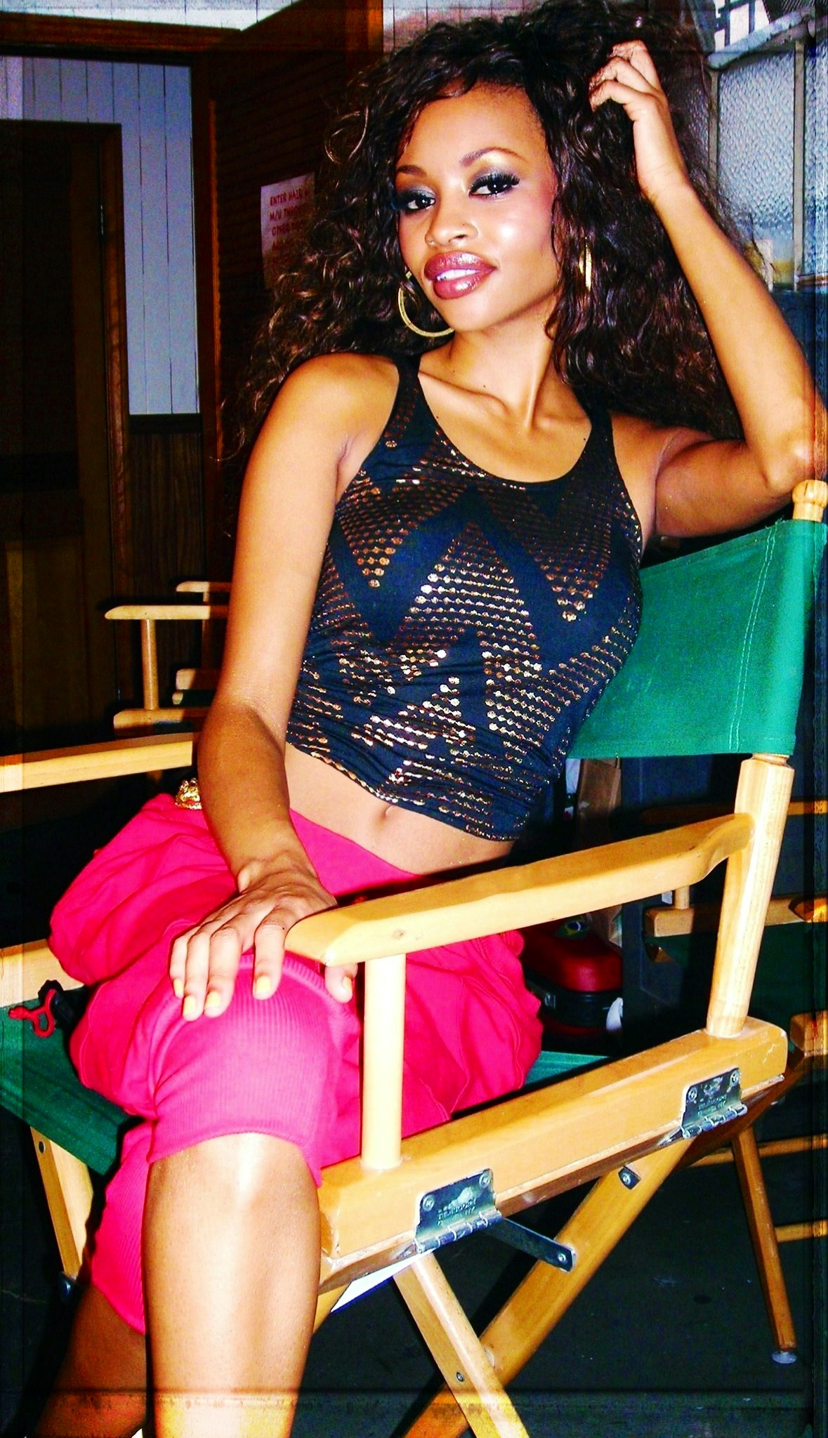 Commercial shoot. Snapshot taken by me behind the scenes.